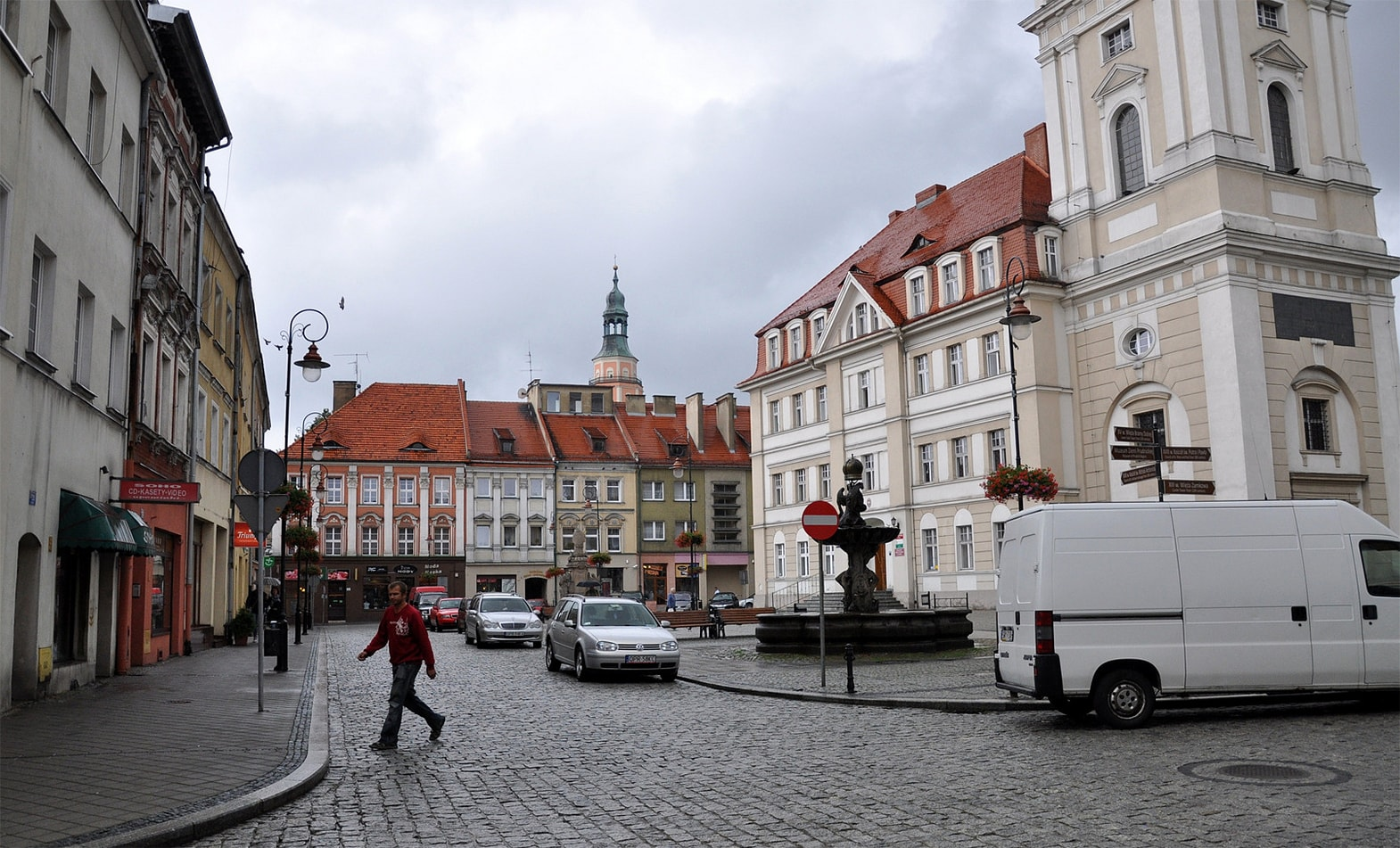 Market Square in Prudnik